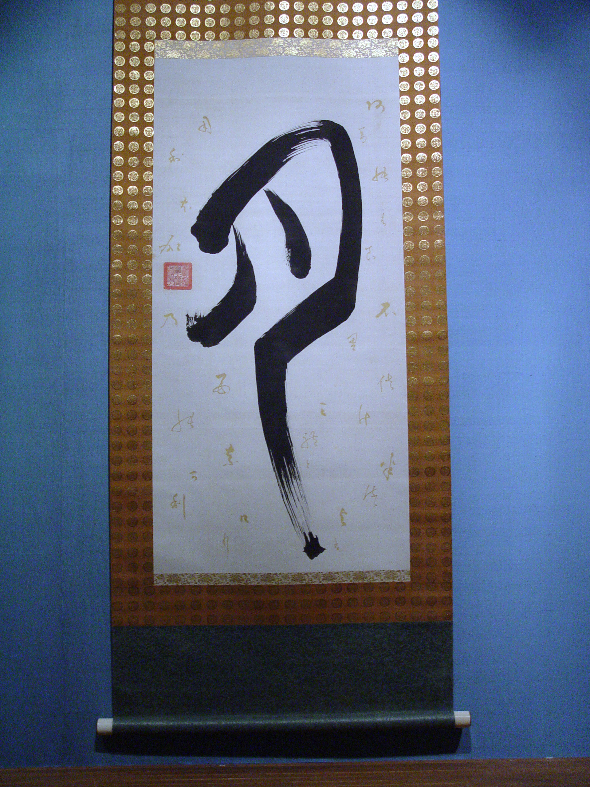 Lord Tokugawa Nariaki Japan, 1800-1860 Snow, Moon, Flower Calligraphy, circa 1840-1860 Set of three hanging scrolls; ink and gold pigment on paper Gift of 2008 Japanese Art Acquisitions Committee (M.2008.11.1-3) Wikipedia Loves Art at the Los Angeles County Museum of Art This photo of item # M.2008.11.2 at the Los Angeles County Museum of Art was contributed under the team name "Team_A" as part of the Wikipedia Loves Art project in February 2009. Los Angeles County Museum of Art The original photograph on Flickr was taken by howcheng—please add a comment to the original Flickr page whenever a use has been made on Wikipedia or another project. Project galleries on Flickr: this institution, this team Lord Tokugawa Nariaki Japan, 1800-1860 Snow, Moon, Flower Calligraphy, circa 1840-1860 Set of three hanging scrolls; ink and gold pigment on paper Gift of 2008 Japanese Art Acquisitions Committee (M.2008.11.1-3) Wikipedia Loves Art at the Los Angeles County Museum of Art This photo of item # M.2008.11.2 at the Los Angeles County Museum of Art was contributed under the team name "Team_A" as part of the Wikipedia Loves Art project in February 2009. Los Angeles County Museum of Art The original photograph on Flickr was taken by howcheng—please add a comment to the original Flickr page whenever a use has been made on Wikipedia or another project. Project galleries on Flickr: this institution, this team